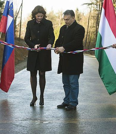 Ribbon-cutting in the Mass Road (Kétvölgy), Vendvidék, near the Slovene border (Čepinci) with the Slovene president Alenka Bratušek and the Hungarian president Viktor Orbán.